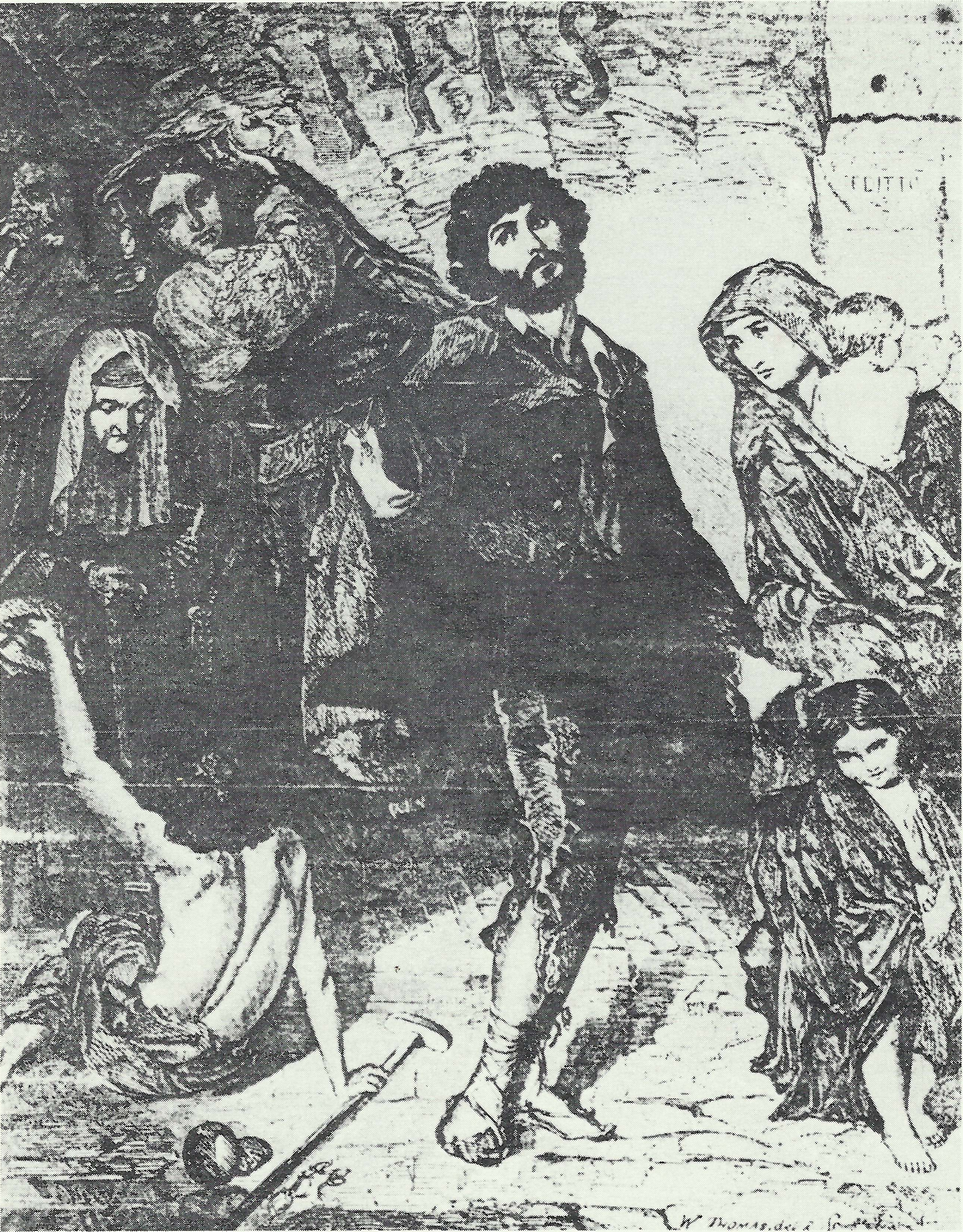 Sample in black and white of a watercolour of Elizabeth Murray.